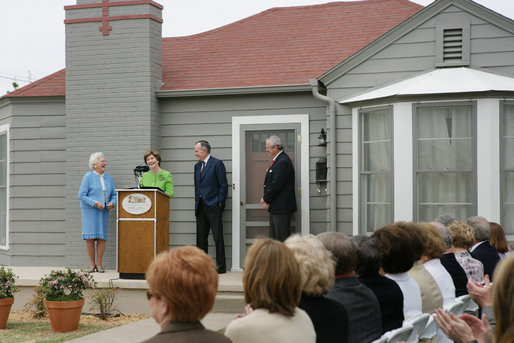 Barbara Bush, Laura Bush, George H.W. Bush and family friend Joseph I. O'Neill (who introduced Laura and George W. in Midland) at the dedication of the George W. Bush Childhood Home in Midland on April 11, 2006. White House photo by Shealah Craighead